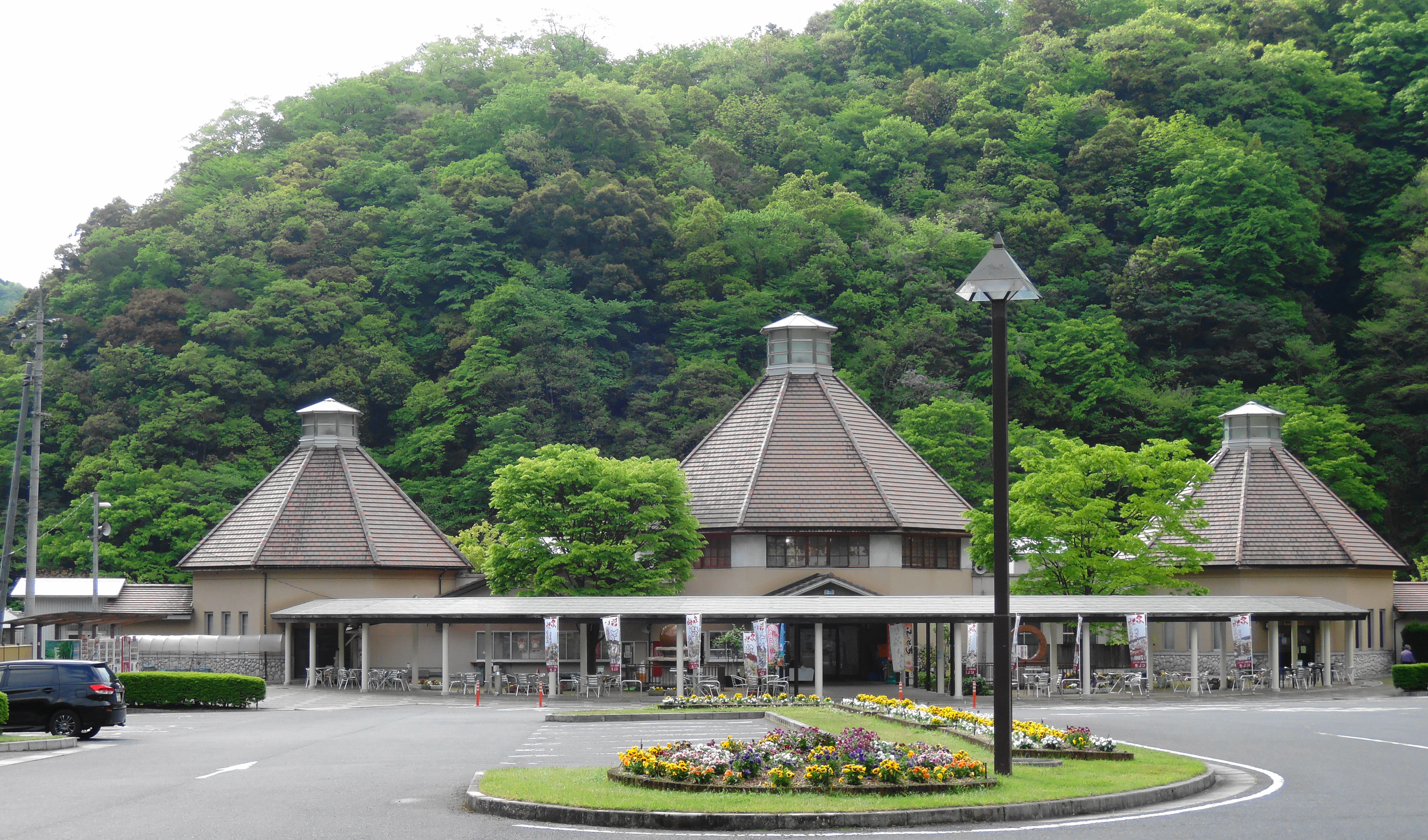 Roadsaide station Pure line Nishiki,Yamaguchi prefecture,Japan